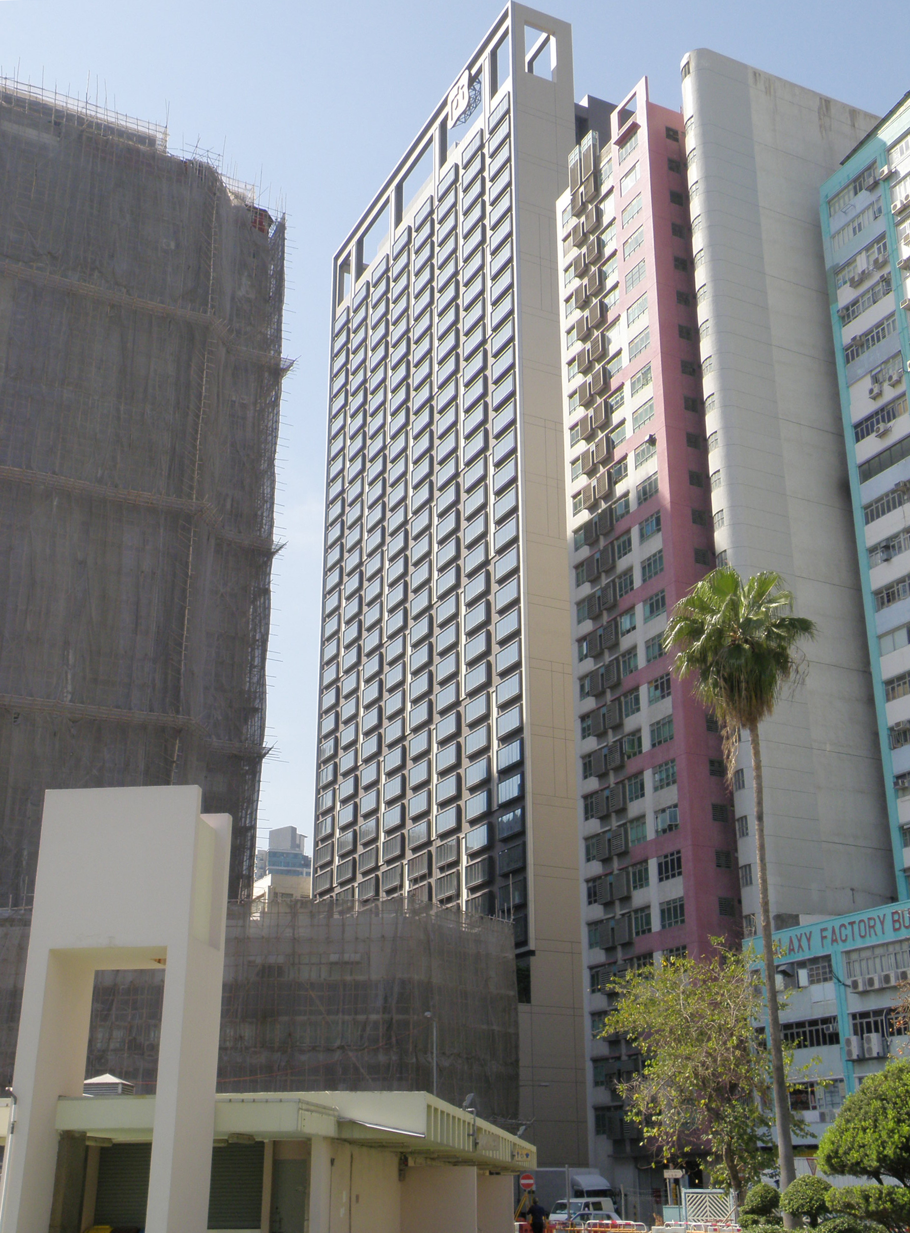 Penta Hotel Hong Kong Kowloon in San Po Kong, Hong Kong.